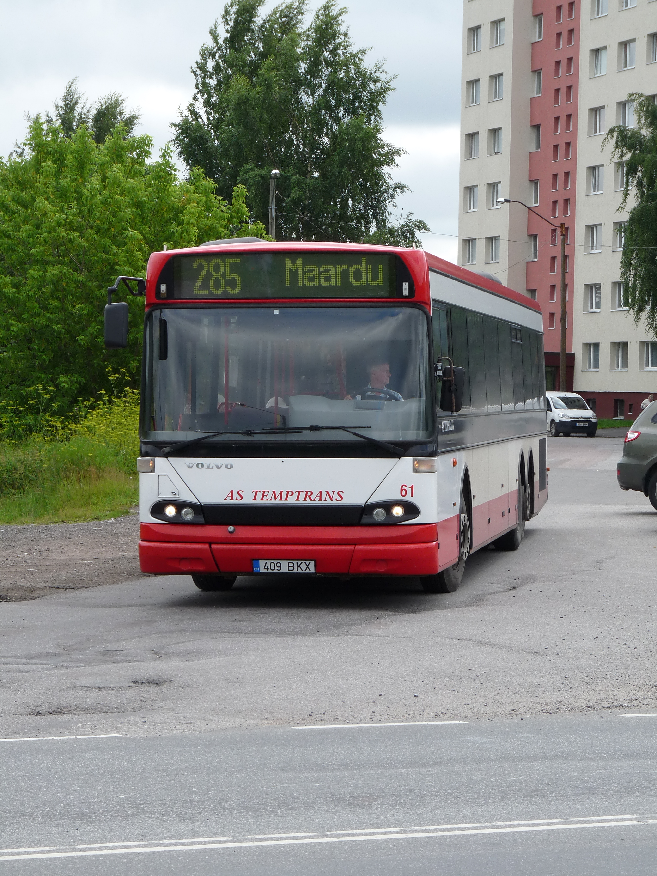 Tallinn-Maardu bus